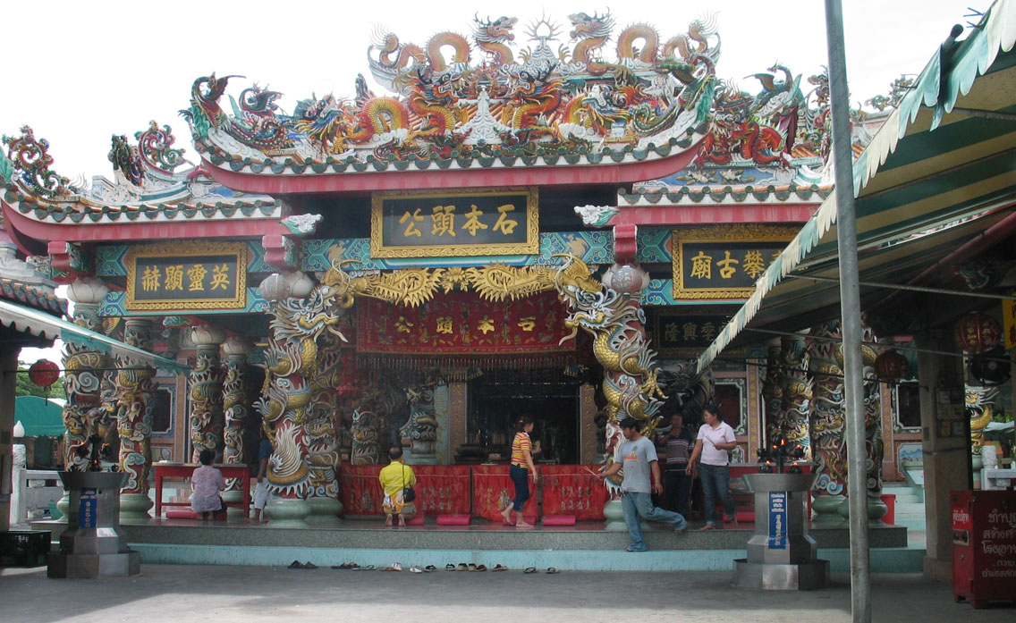 City pillar shrine of Suphanburi inside a chinese temple, West-Thailand.